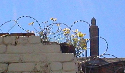 More than likely this little ragworts ancestors took a train from Oxford on its journey to its new home here in Liverpool. Cropped from the original.Ragwort and barbed wire